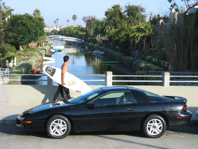 Taken in 2004 of my 1996 Camaro with a 3800 Series II V6. Pictured at the canals of Venice. The RS package on a '96 Camaro included ground effects and a spoiler extension. Later model RS package-equipped Camaros did not have ground effects, and offered some performance enhancement among other things.